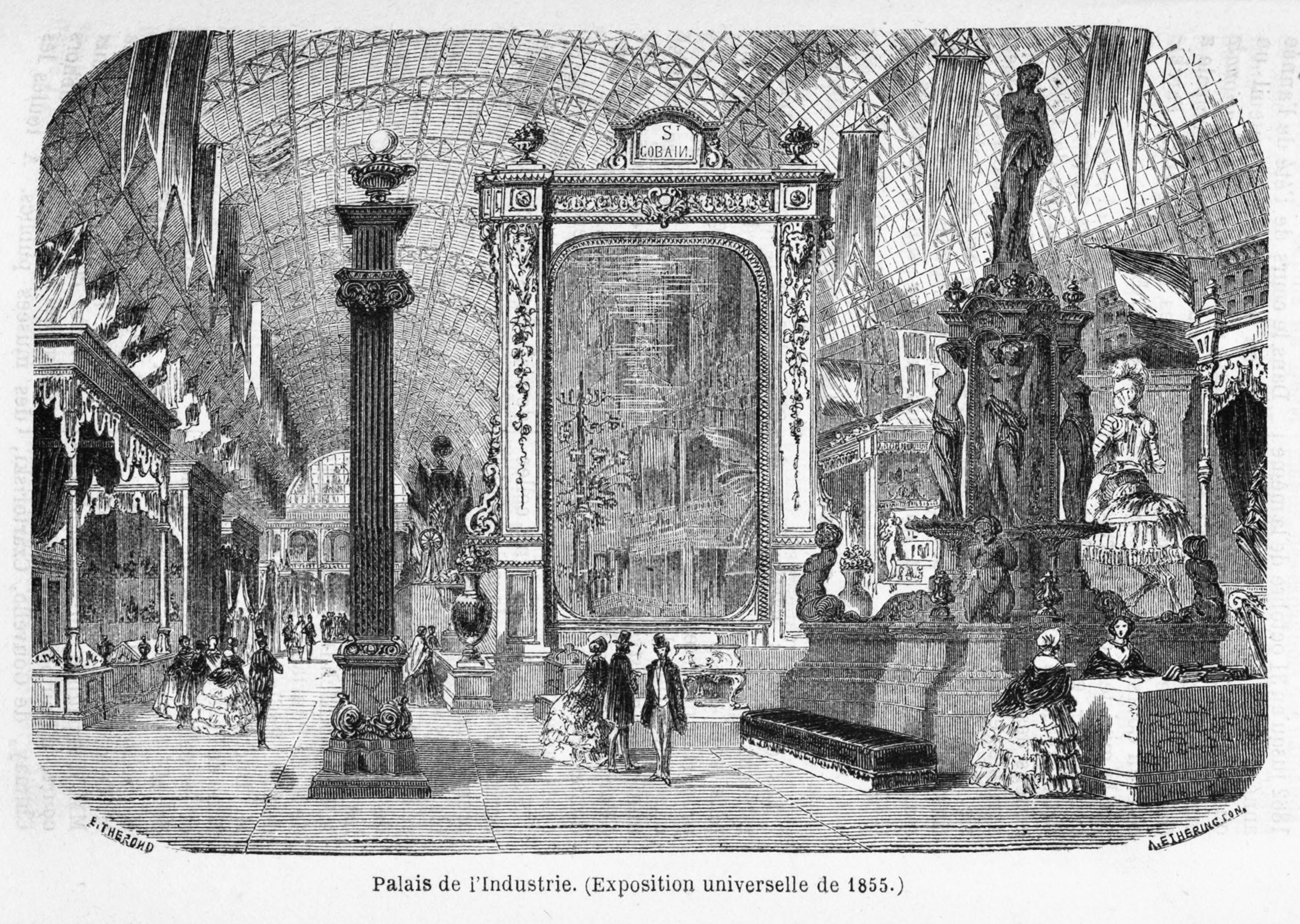 The central nave of the Palais de l'Industrie during the 1855 Paris World Fair. The frame/portal-like exhibit (supporting a large pane of glass inside?) reads "St-Gobain", a manufacturer of construction materials, at the time notably mirrors. The sign's letter N is a mirror image (И), but another contemporary depiction doesn't show this particularity. The accompanying text, which was published 12 years after the expo, does not mention this exhibit or the company.